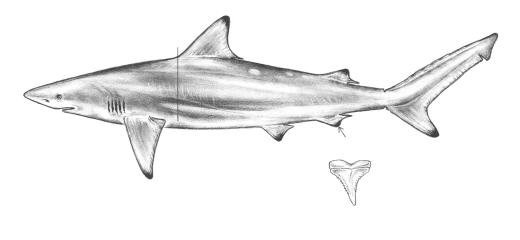 Spinner shark (Carcharhinus brevipinna), from Grace, M. (2001). "Field Guide to Requiem Sharks (Elasmobranchiomorphi: Carcharhinidae) of the Western North Atlantic". NOAA Technical Report NMFS 153.